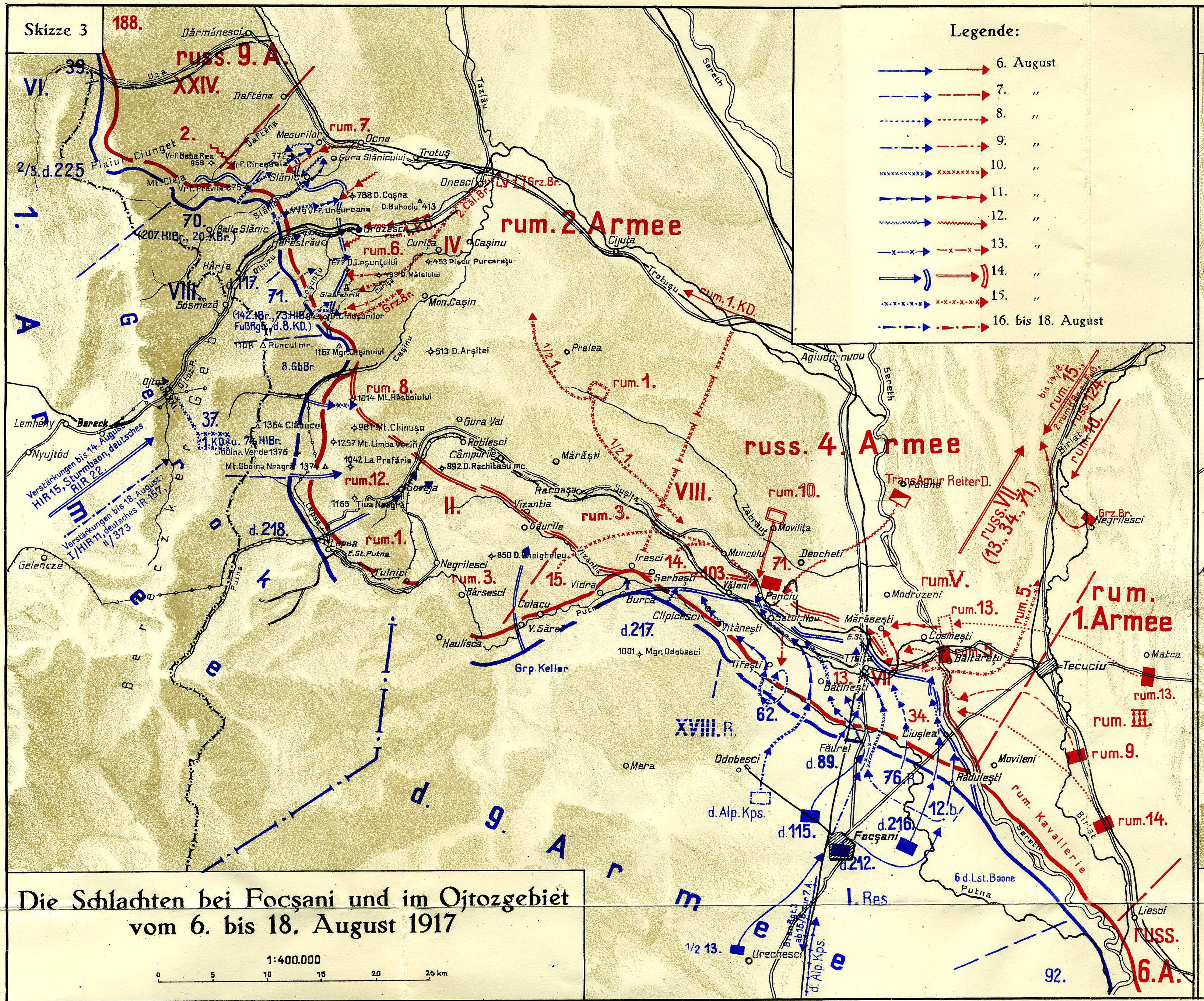 Romanian Front in WWI - The first phase of the battle of Mărășești, 1917